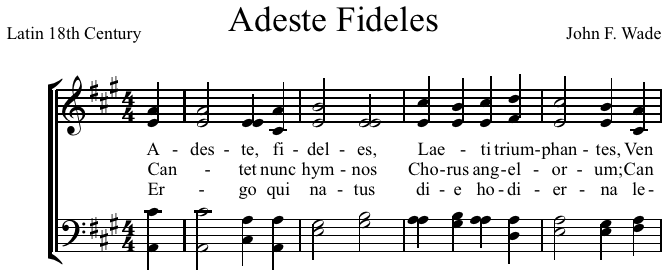 Screenshot of GNU_LilyPond-generated score for Adeste Fideles.